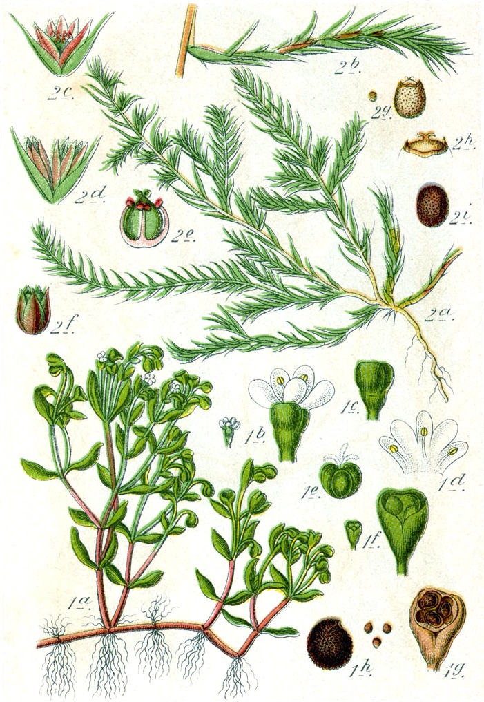 1. Montia fontana subsp. chondrosperma (Fenzl) Walters (Portulacaceae), syn. Montia minor C. C. Gmel. 2. Polycnemum arvense L. (Amaranthaceae). Original Caption 1. Kleine Montie, Montia minor 2. Kleines Knorpelkraut, Polycnemum arvense